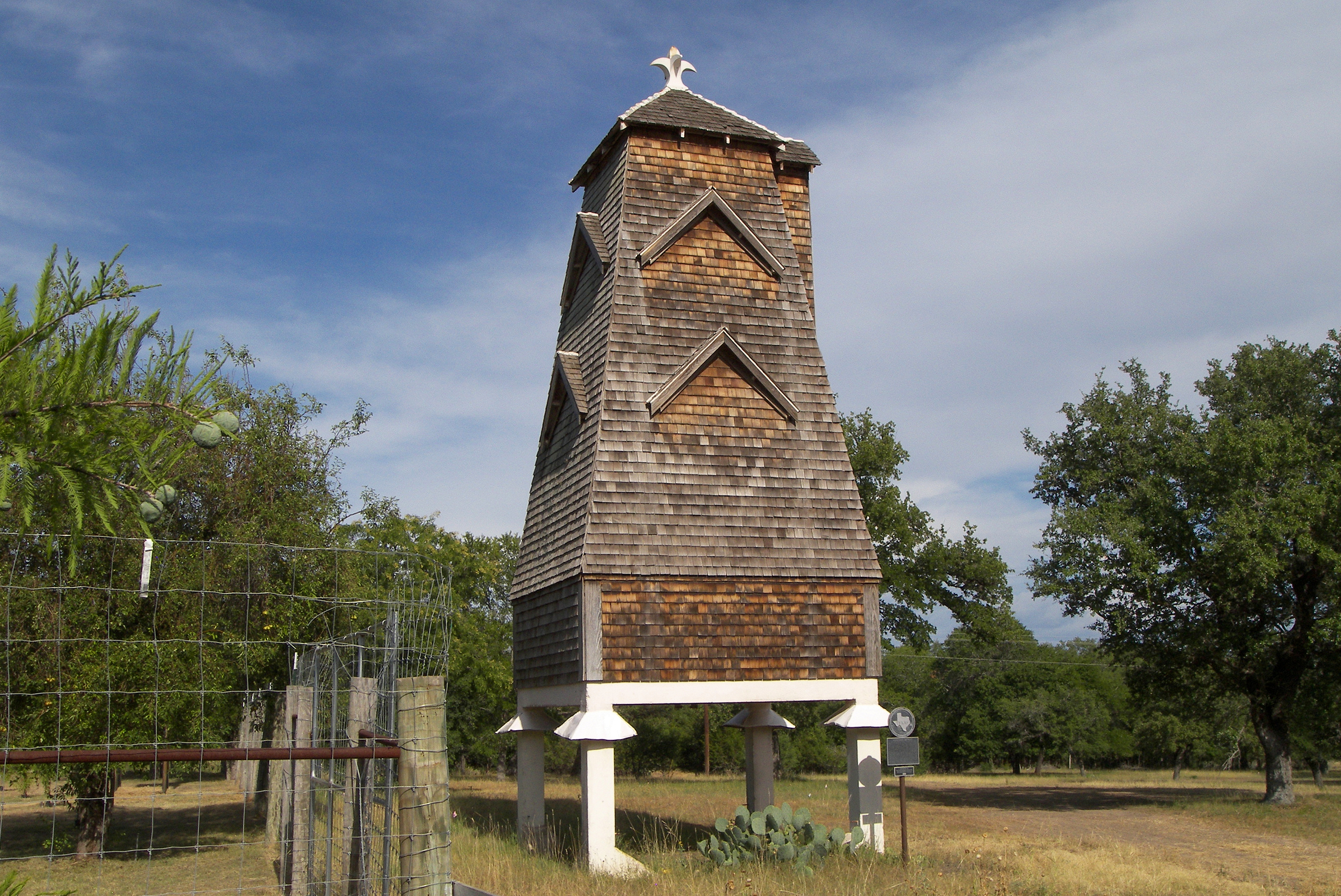 A Hygieostatic Bat Roost located off Farm to Market Road 473 east of Comfort, Texas, United States was built in 1918. The roost was designated a Recorded Texas Historic Landmark in 1981 and listed on the National Register of Historic Places on March 28, 1983.